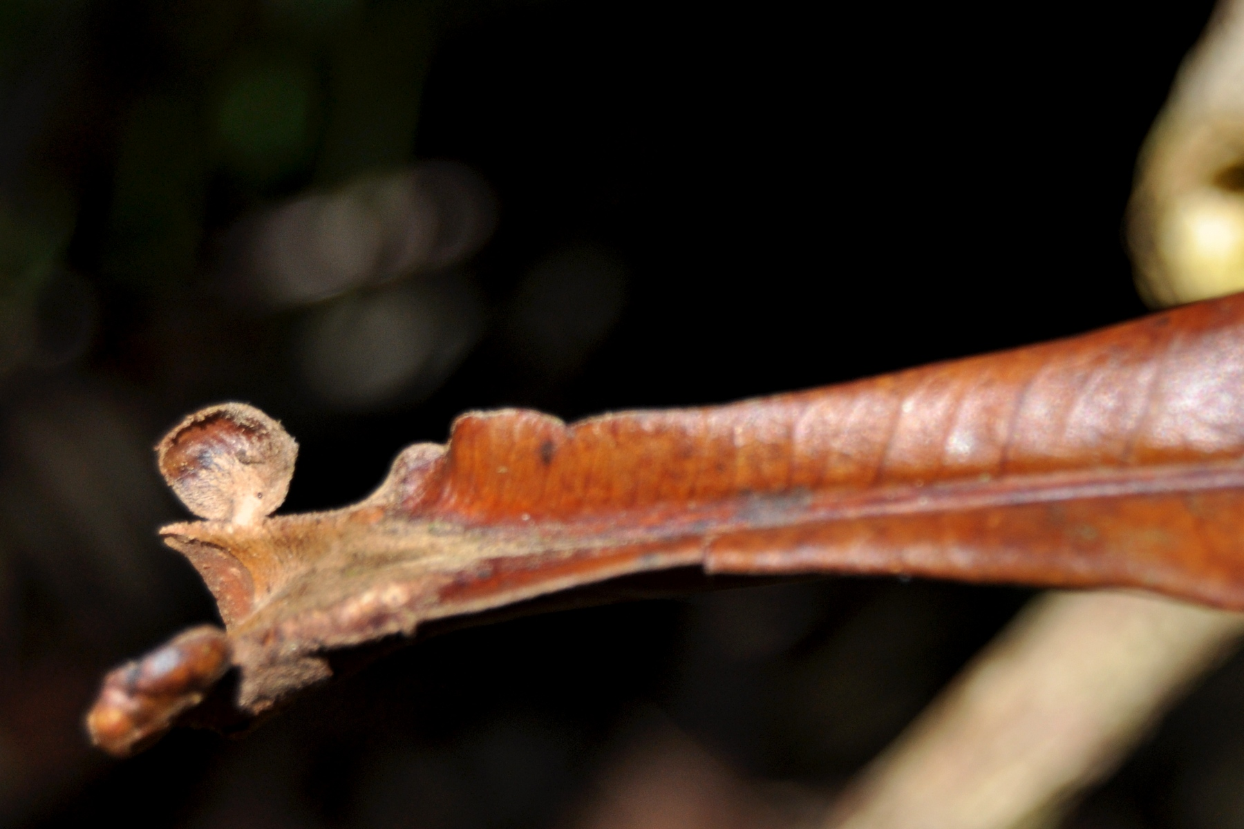 Campnosperma auriculatum, ear-like lobes at leaf base. From Belitong, South Sumatra, Indonesia.